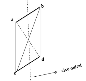 Eixo quiralidade